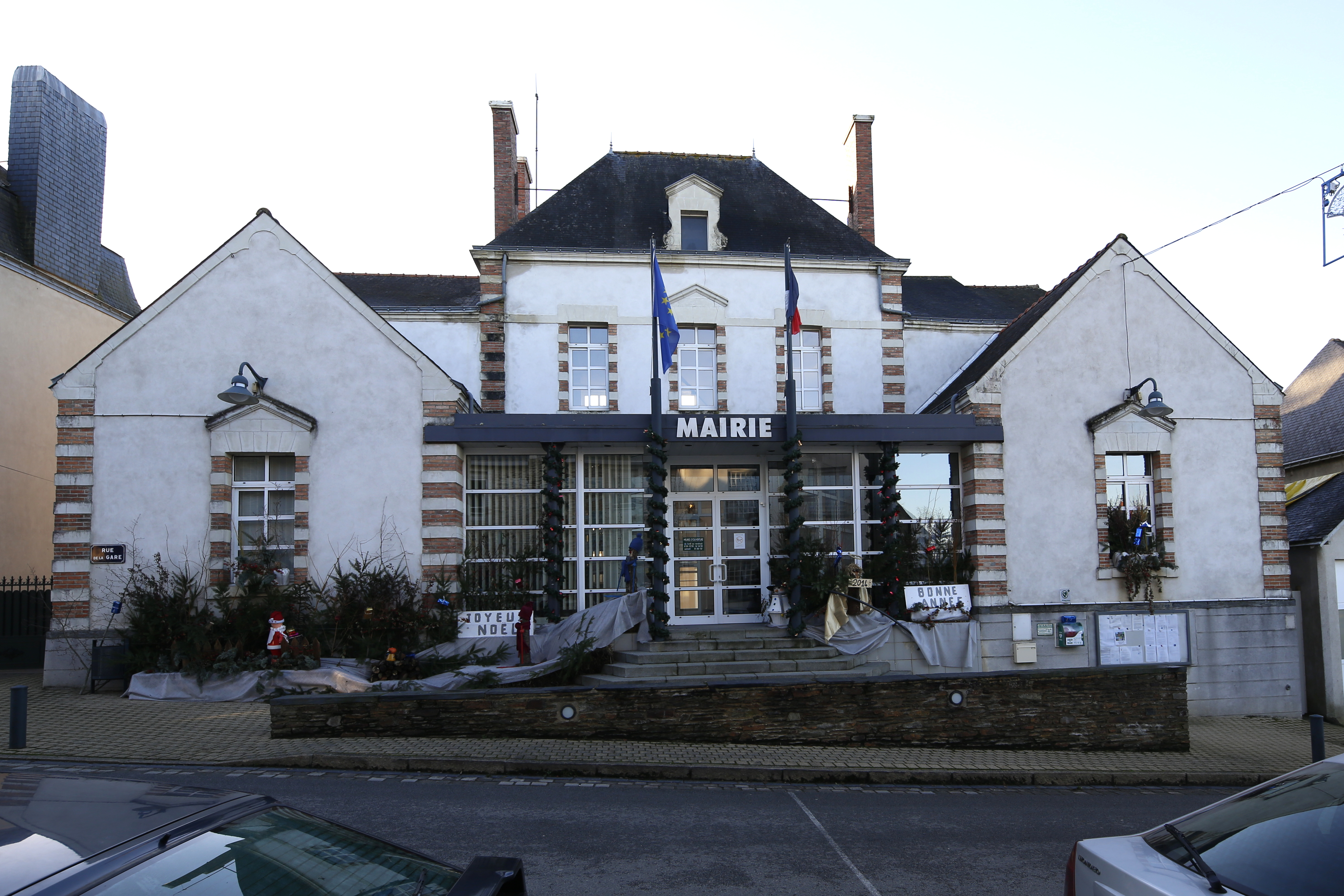 Town hall of Rougé.